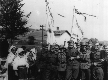 Comradeship between German and Slovakian soldiers, Komańcza 1939.